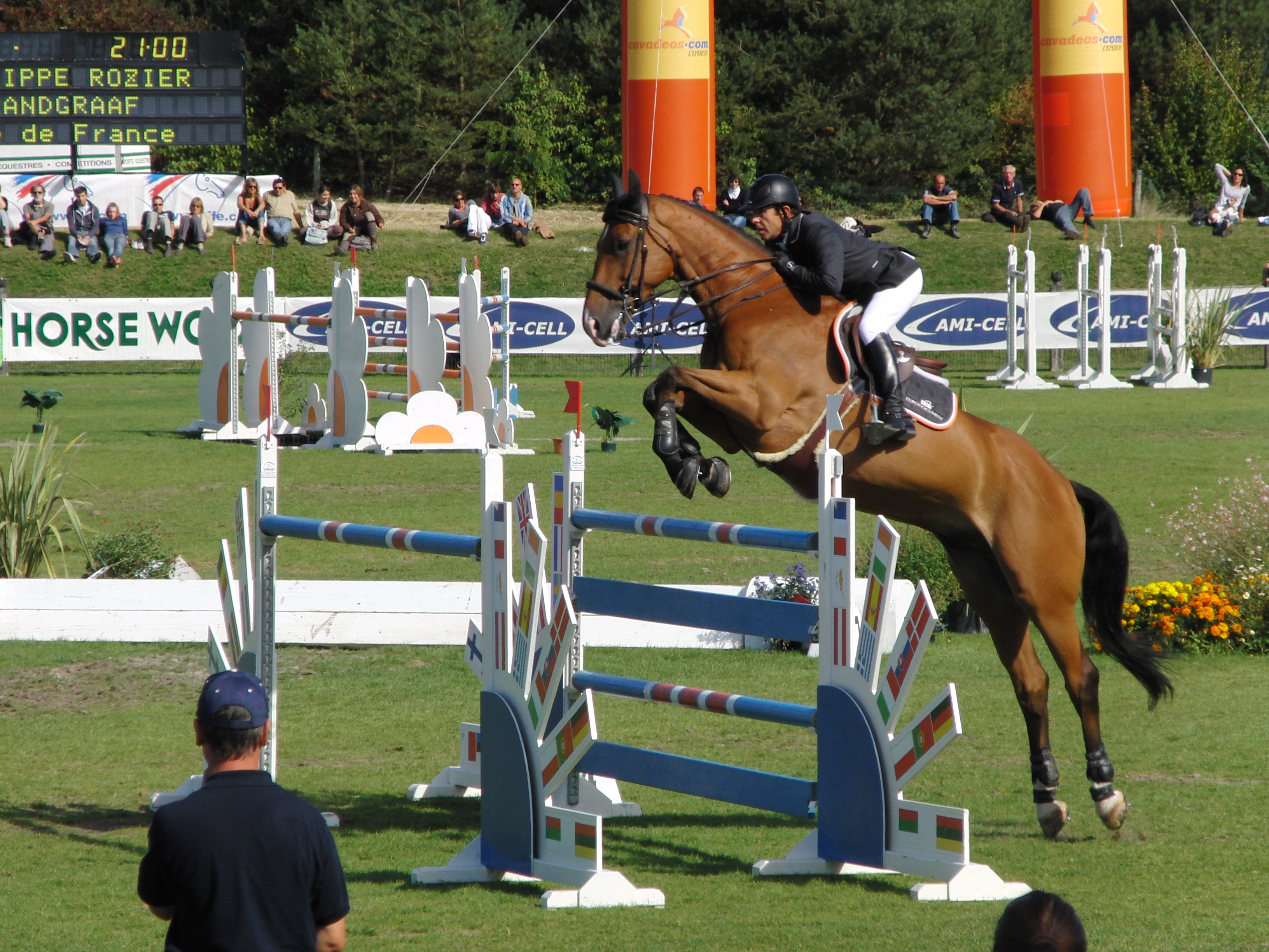 Philippe Rozier and Randgraaf, KWPN - Championnats de France de saut d'obstacles "Master Pro" 2010 at Fontainebleau, France